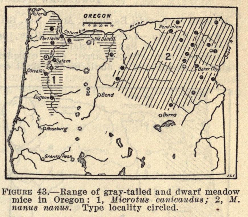 Range of gray-tailed meadow mouse (Microtus canicaudus) and dwarf meadow mouse (Mocrotus nanus nanus) in Oregon